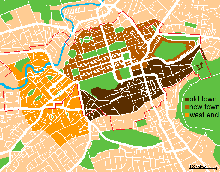 A map of the city centre of Edinburgh, Scotland. Old Town is in dark brown, New Town in light brown, West End is in yellow, and the World Heritage Site boundary is the red line.